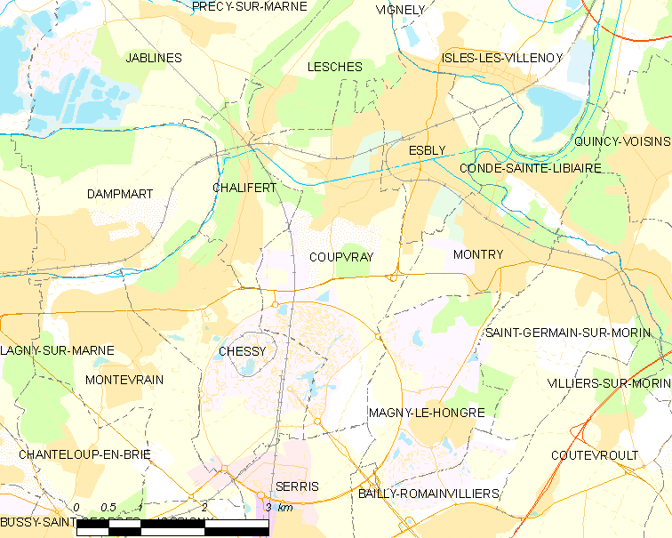 Map of French municipality Coupvray